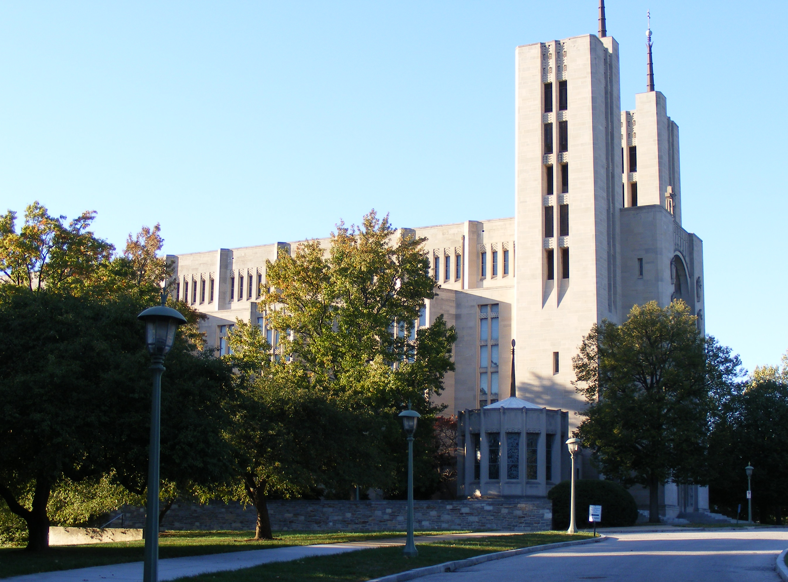 Cathedral of Mary Our Queen viewed from the south